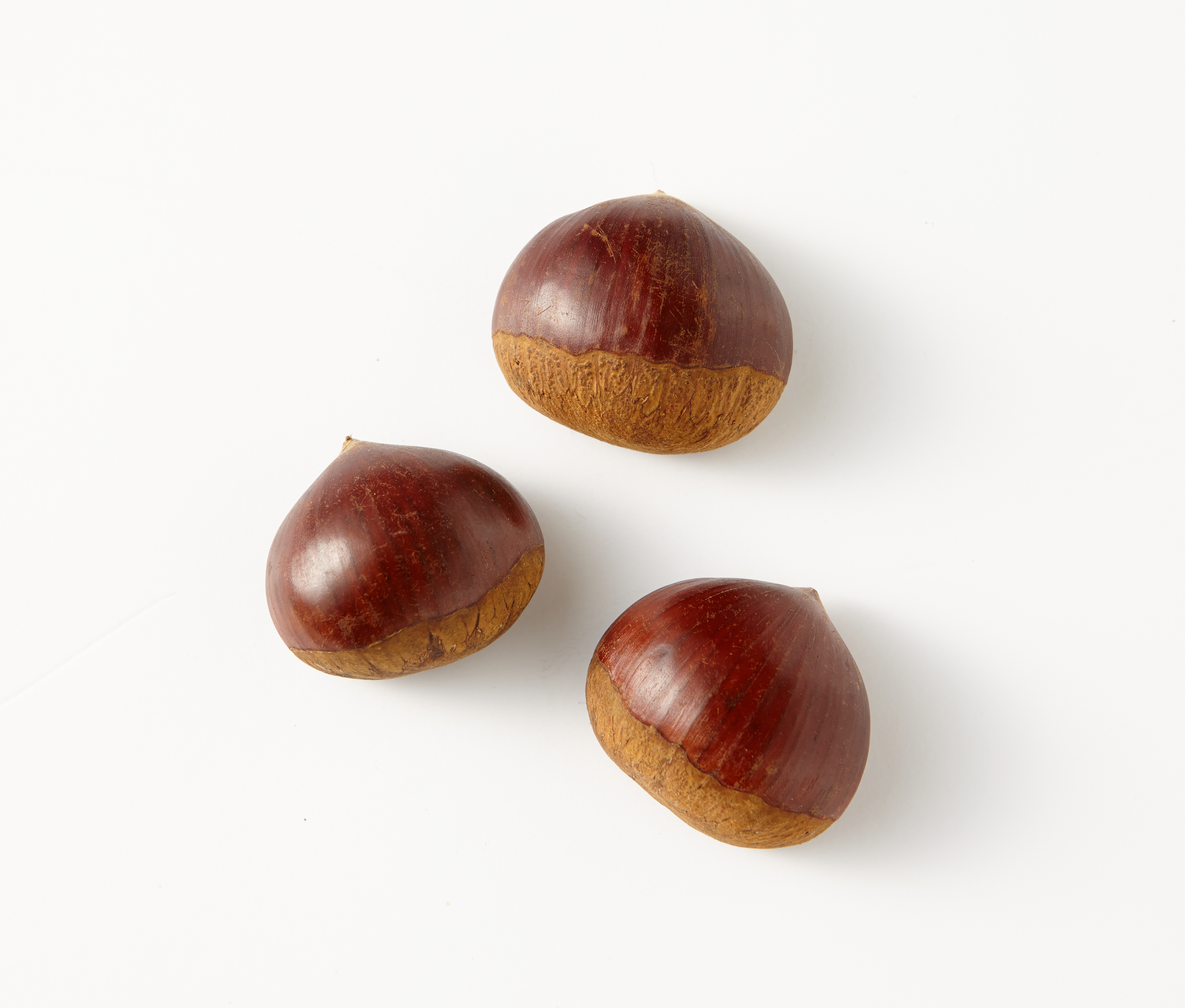 Korean chestnuts (Castanea crenata)